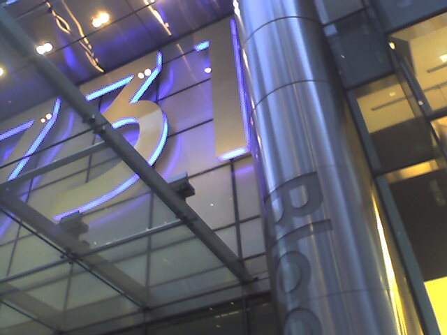 Part of the interior of the Bloomberg LP offices in the Bloomberg Tower in New York City.